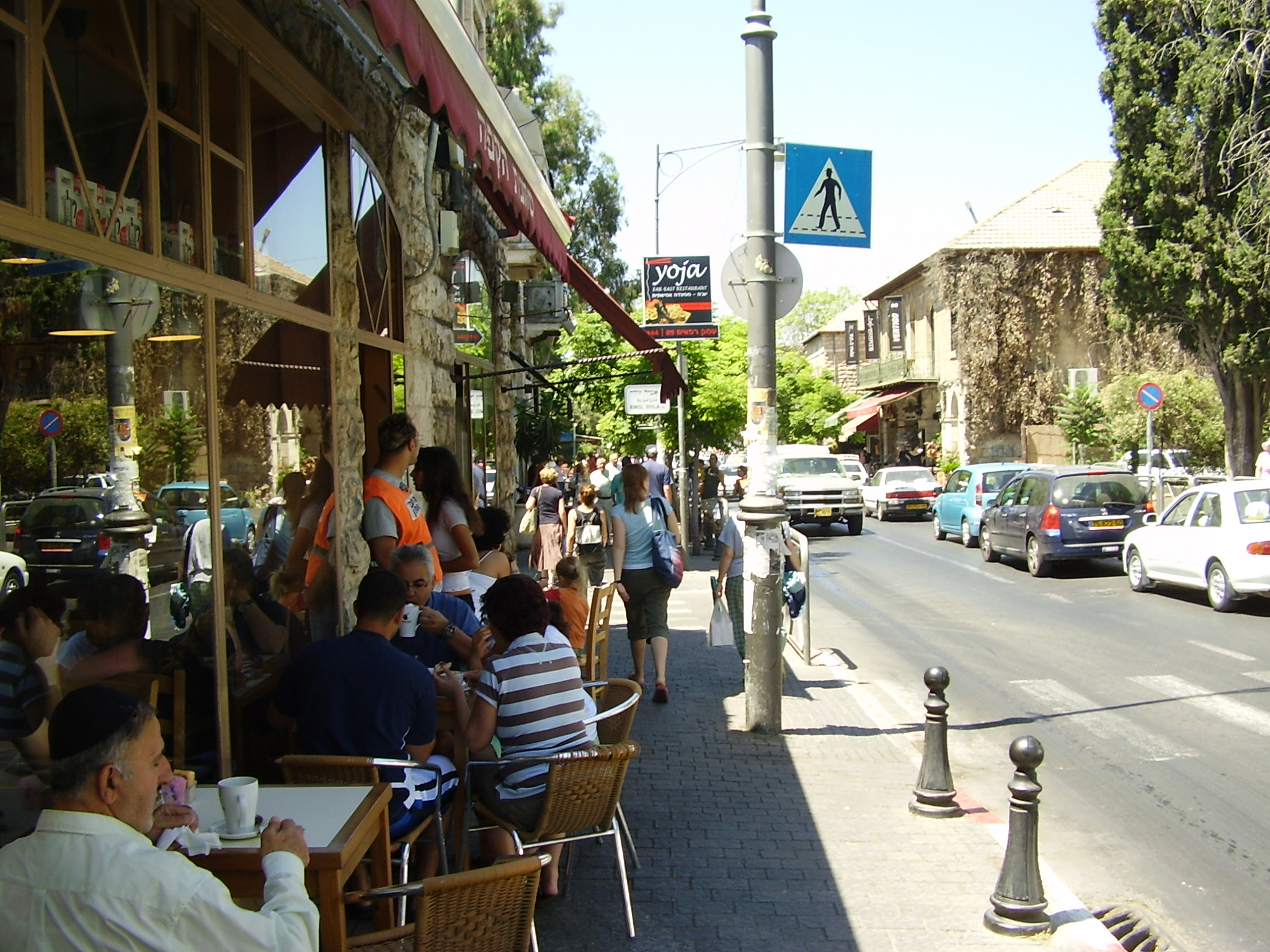 23 emek refaim str. in jerusalem - טחנת הקפה The Coffee Mill located on the corner of Emile Zola and Emek Refaim